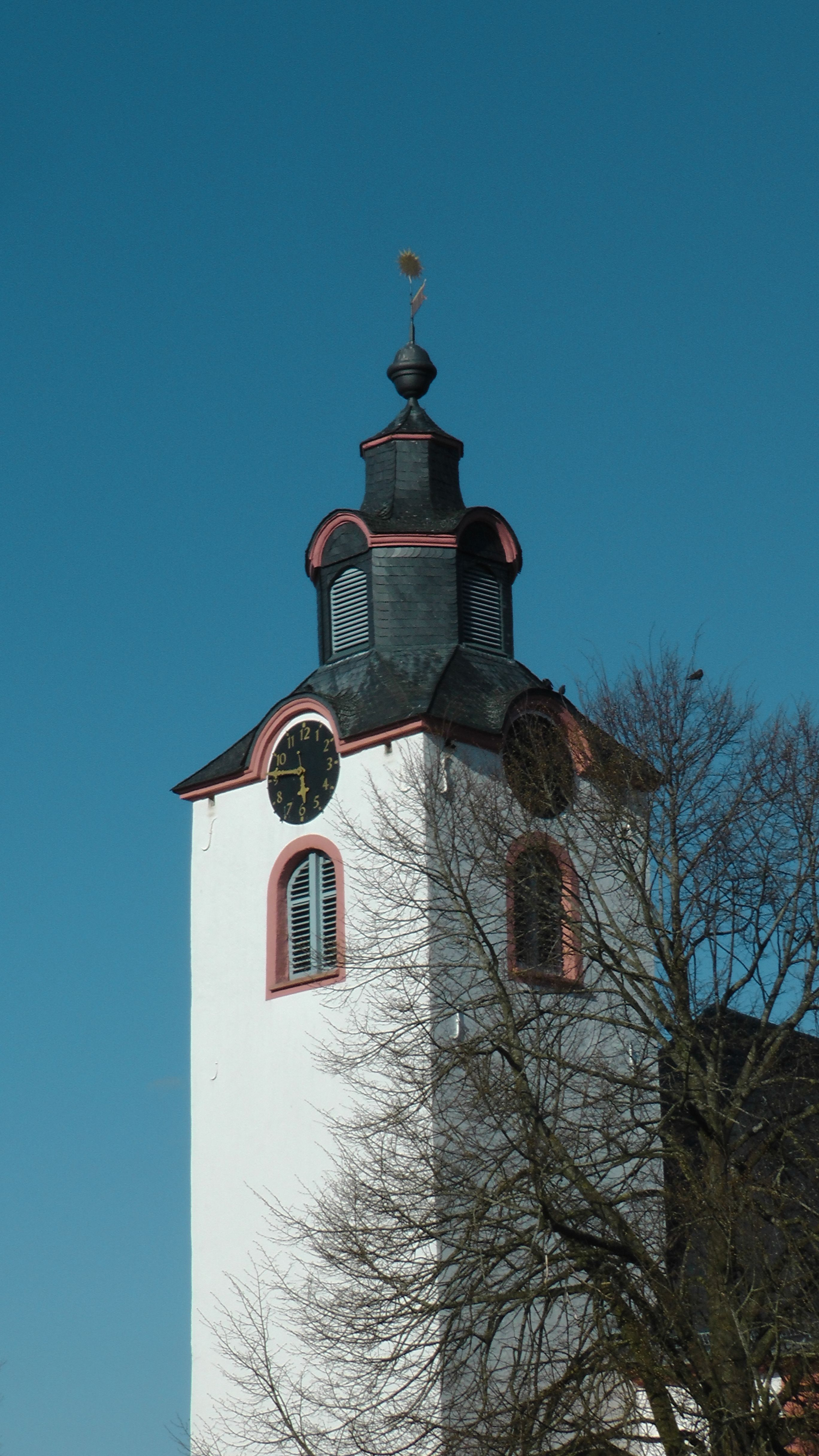 Church tower - Protestant church Kleinich (Gernamy, Rhineland-Palatinate, Hunsrück)